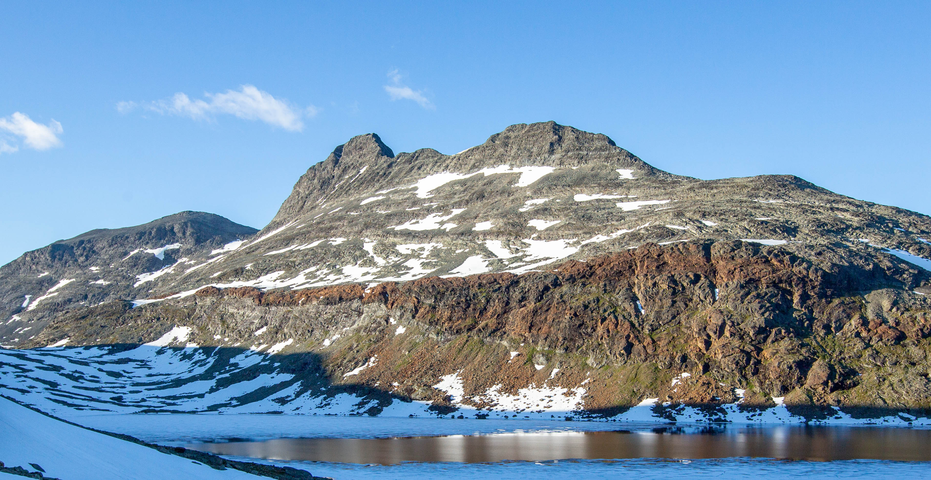 Uranostinden is a mountain in Jotunheimen Mountain range in Norway. Below you can see Uradalsvatnet.